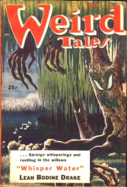 Cover of the pulp magazine Weird Tales (May 1953, volume 45, number 2) featuring "Whisper Water" by Leah Bodine Drake. Cover art by Joseph Eberle.